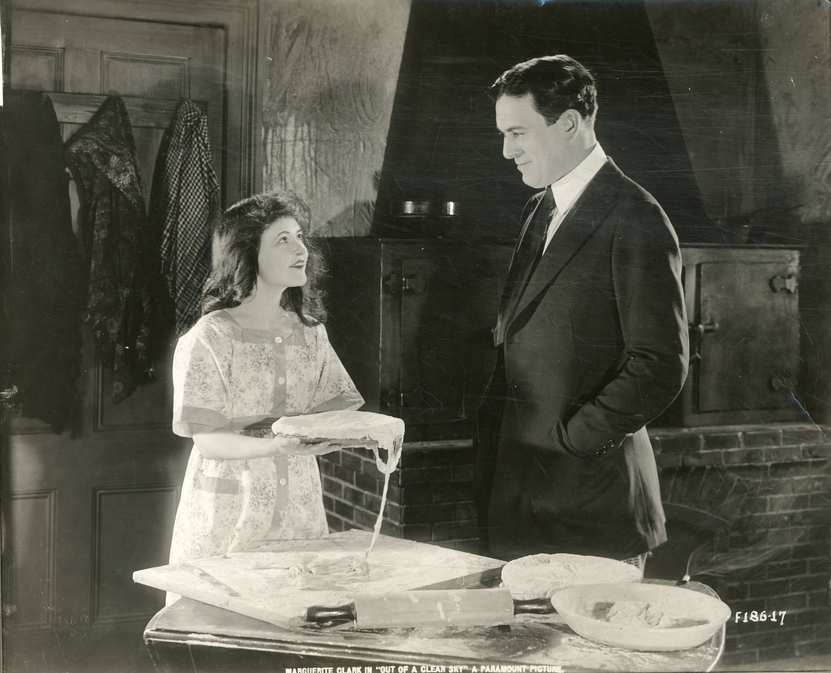 A scene from the American romance film Out of a Clear Sky (1918). Includes Marguerite Clark and Thoman Meighan. Date stamped Dec. 22, 1918. Subjects: motion pictures, actresses, actors